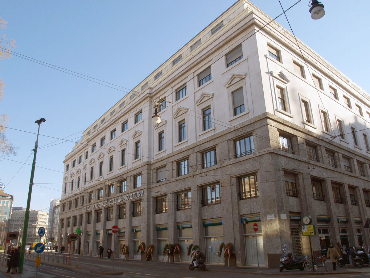 Piazza Fontana, Milan: "Banca Nazionale dell'Agricoltura" building, inside of which the terrorist bombing in Piazza Fontana was carried out on December 12, 1969. (Picture taken on December 12, 2007).